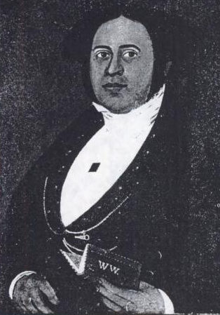 Portrait of William Whipper (1804–1876)